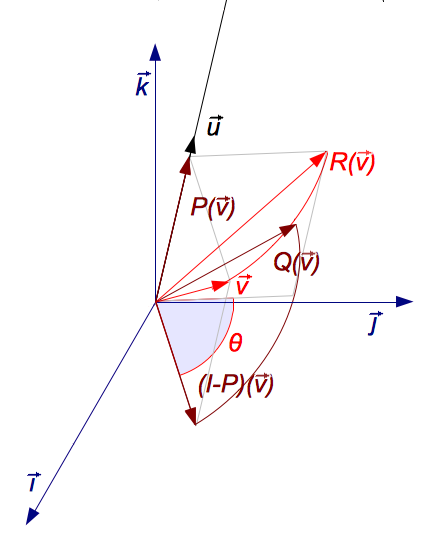 This picture has been made to illustrate article "Rotation matrix" (section about axis-angle formula) It shows a rotation R of an angle θ = 60° around an axis u = (1/√11, 1/√11, 3/√11) A vector v = (1/√3, 1/√3, 1/√3) is rotated to R(v) v’s projection to u’s axis is P(v) v’s projection to the orthogonal plane is (I − P)(v) Q(v) is orthogonal to the other two R = P + (I − P) cosθ + Q sinθ : that's the decomposition of R